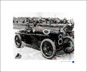 Gaston Chevrolet won the race in one of the Monroe/Frontenac (1919, starting n°8 at Sheepshead Bay)